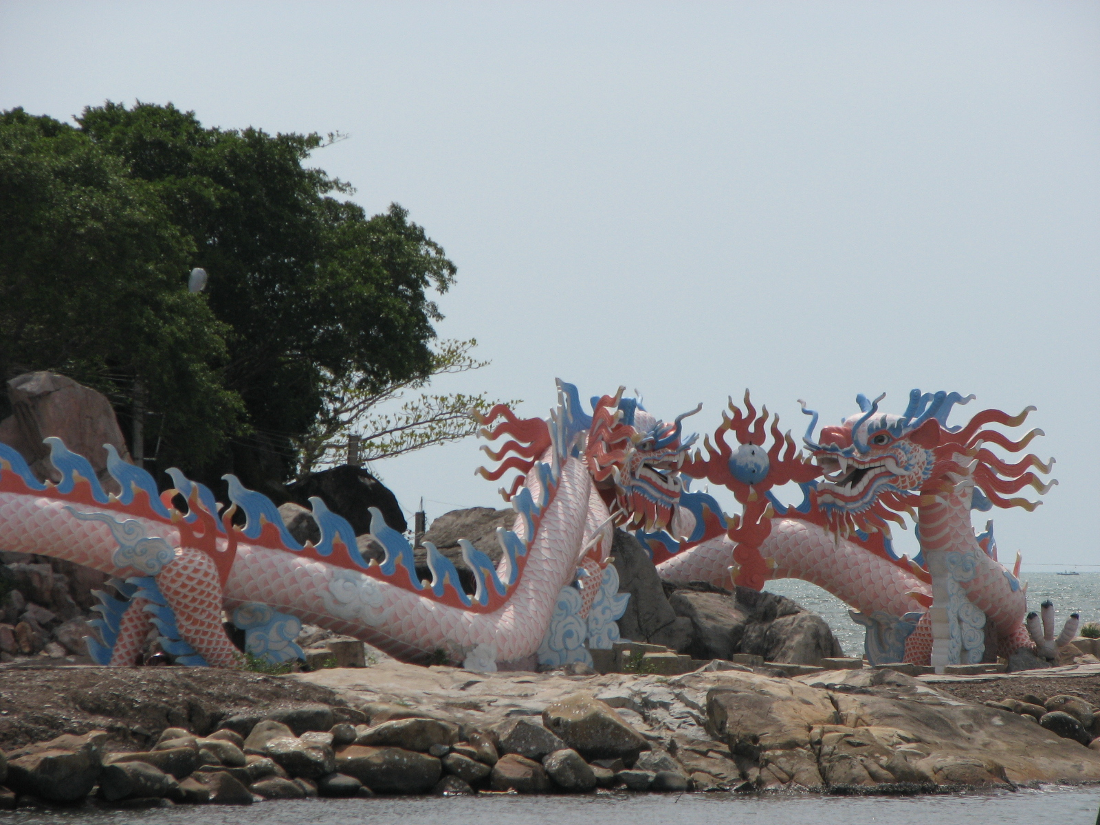 Da Bac Islet, a landmark of Ca Mau Province